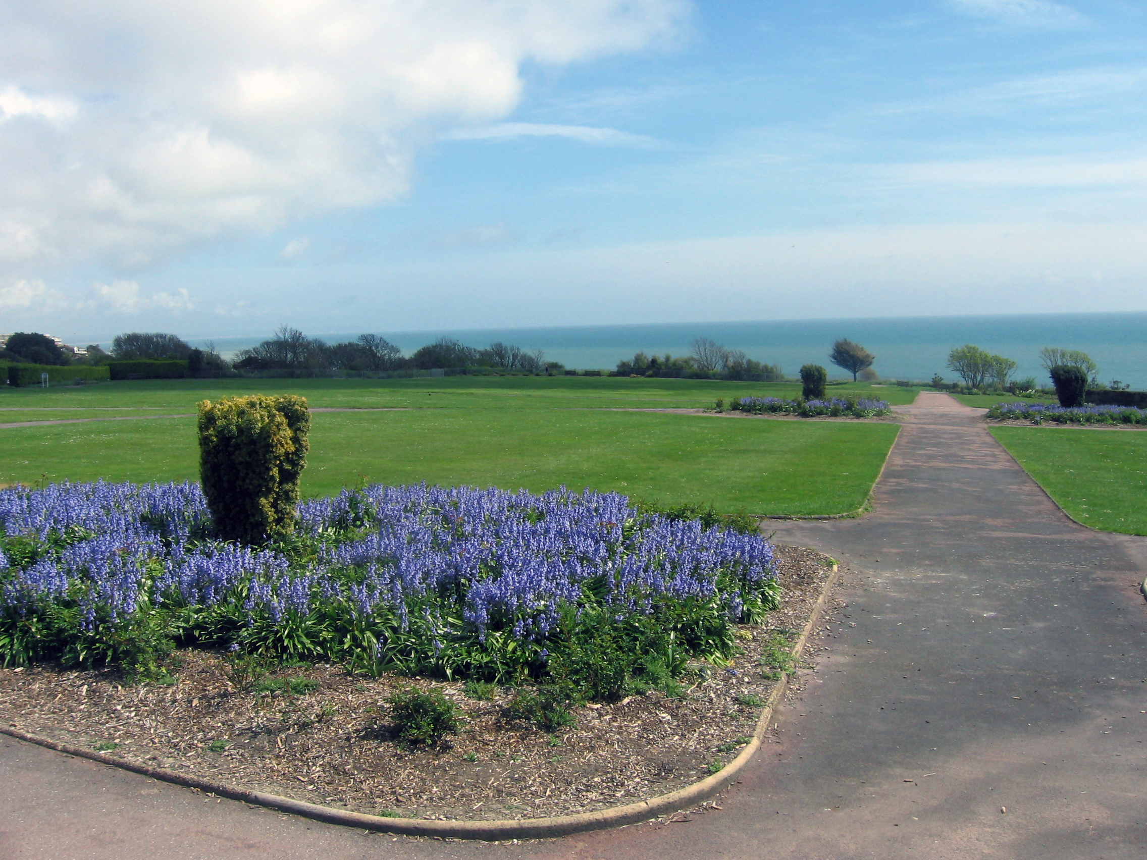 Helen Gardens, Eastbourne